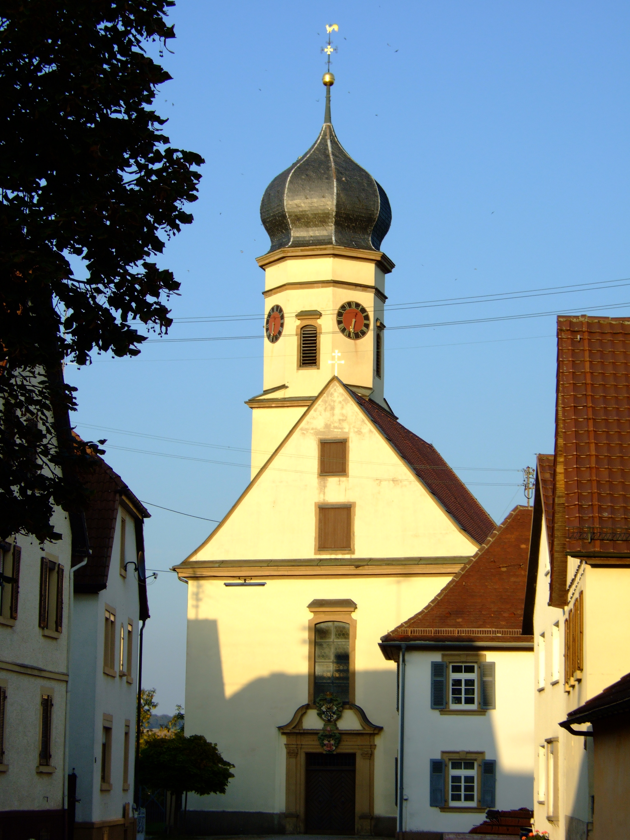 Church "St. Pankratius", Degmarn (Germany), view from west, right hand the vicarage